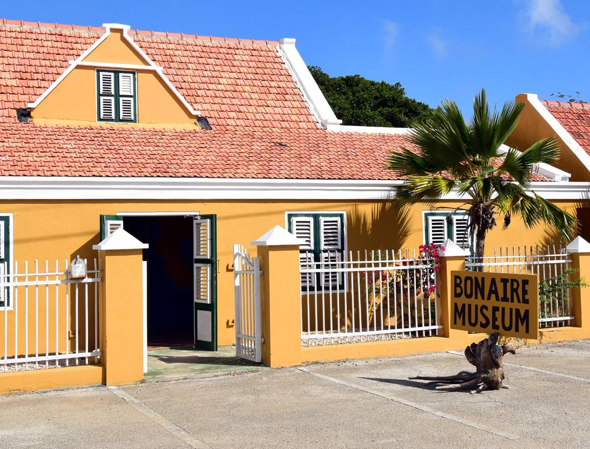 The Bonaire Museum in Kralendijk in the van der Ree house, one of the few designated monuments on Bonaire.